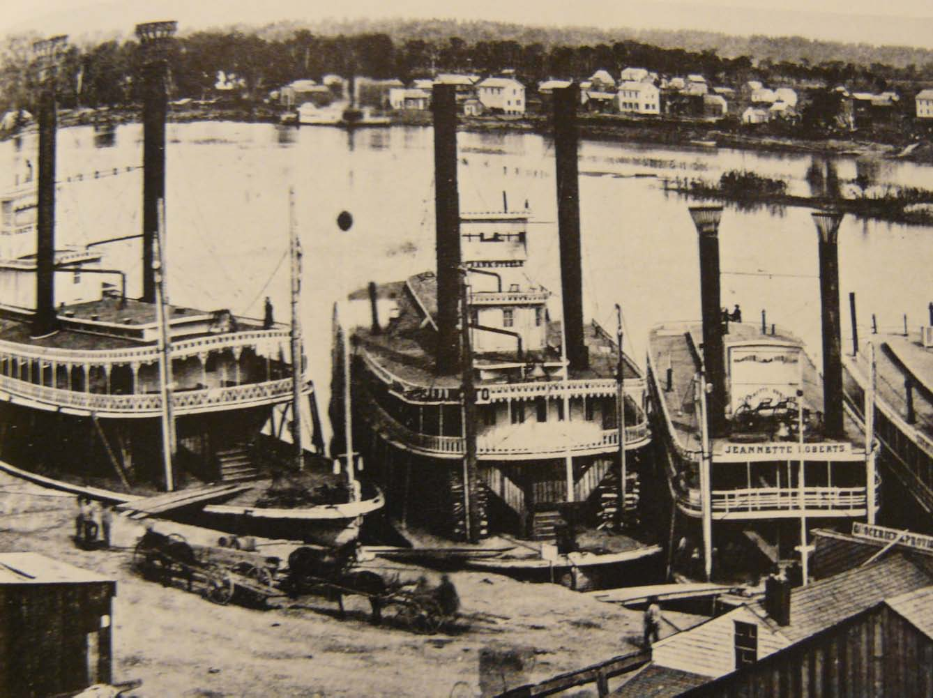 Steam Boats docked in Saint Paul, Minnesota in 1858. Grey Eagle, Frank Steele, Jeanette Roberts and Time and Tide at dock in St. Paul, foot of Jackson Street.